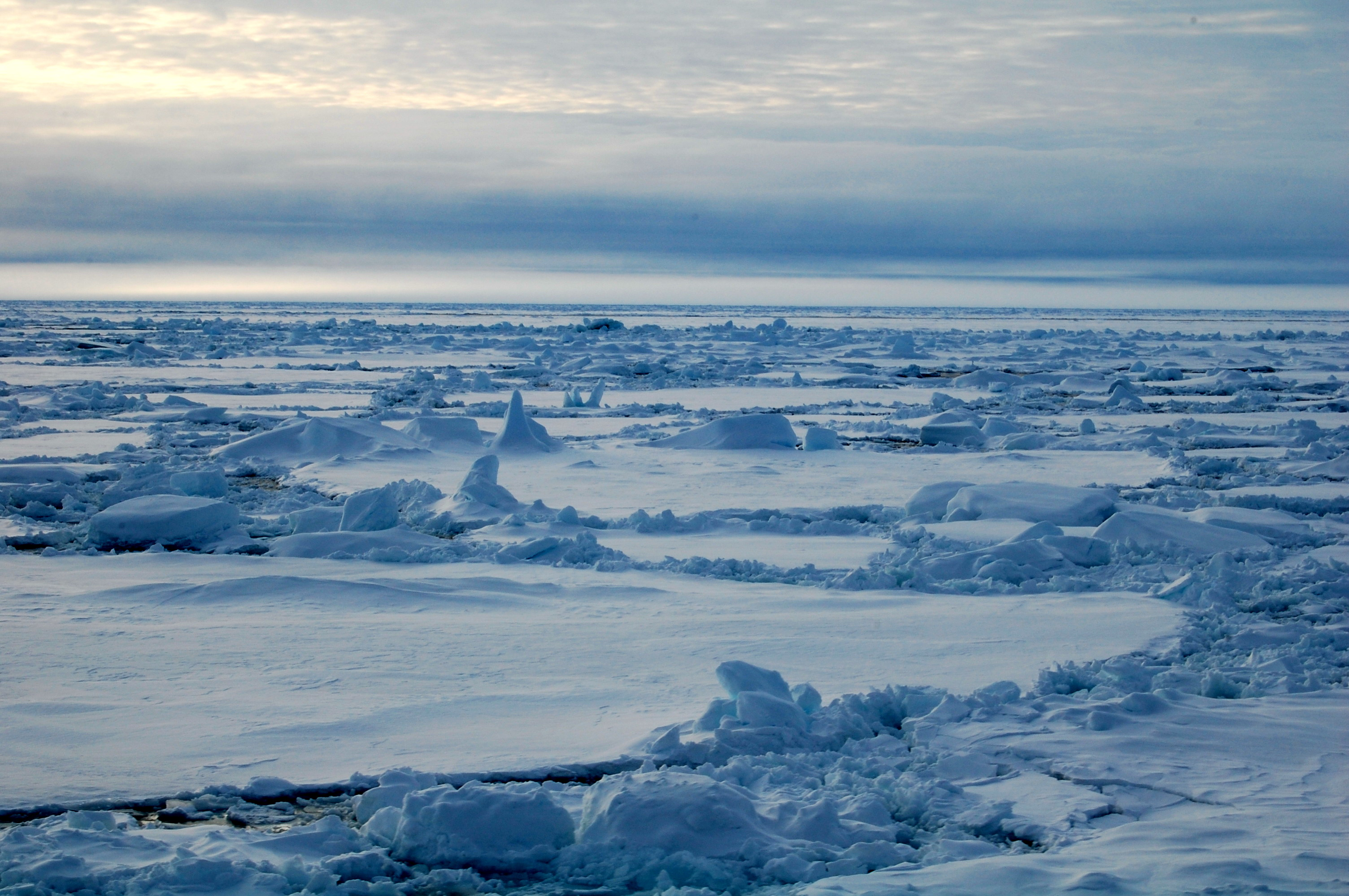 Sea ice